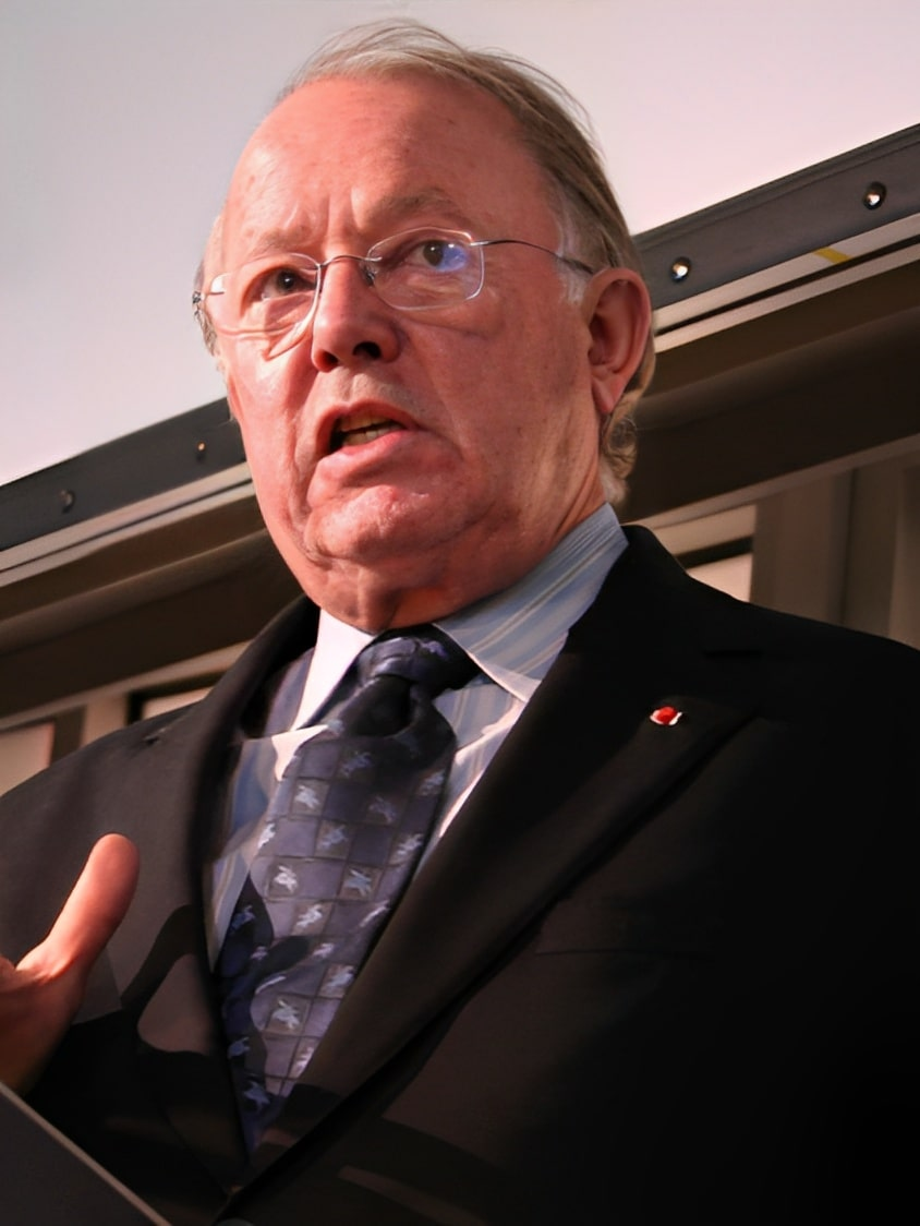 Bernard Landry.